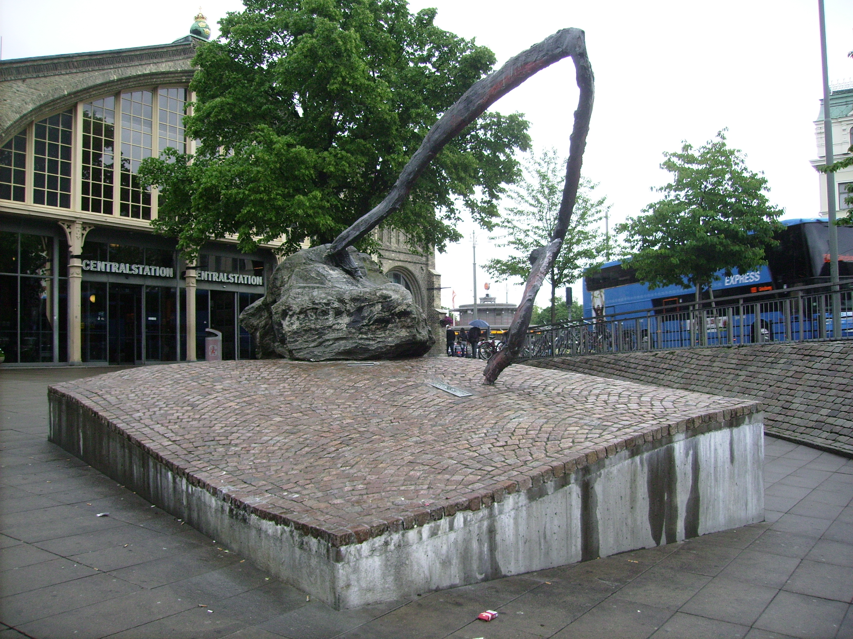 Picture of sculpture in Gothenburg, Bohuslän